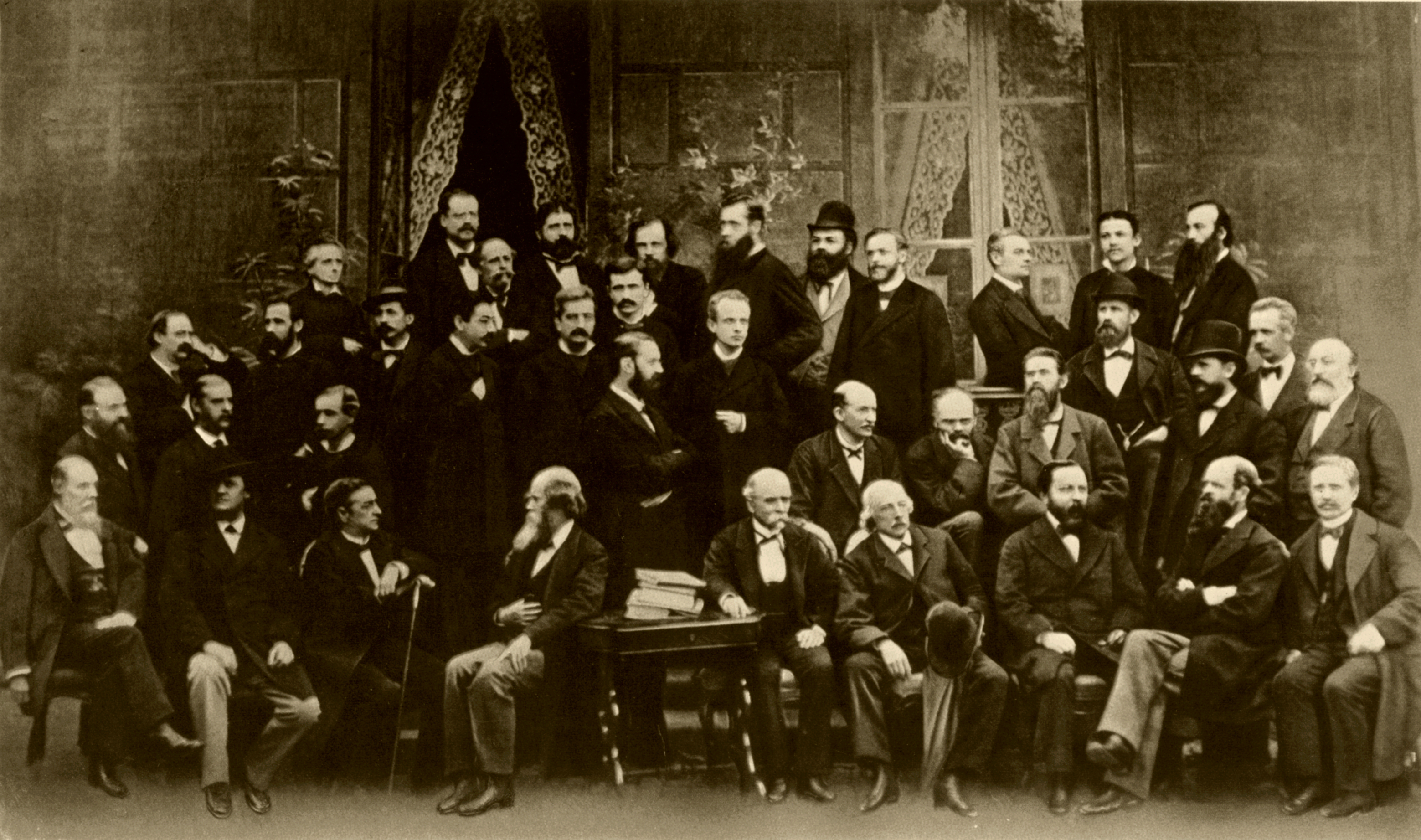 Second International Meteorological Congress. Rome. 1879